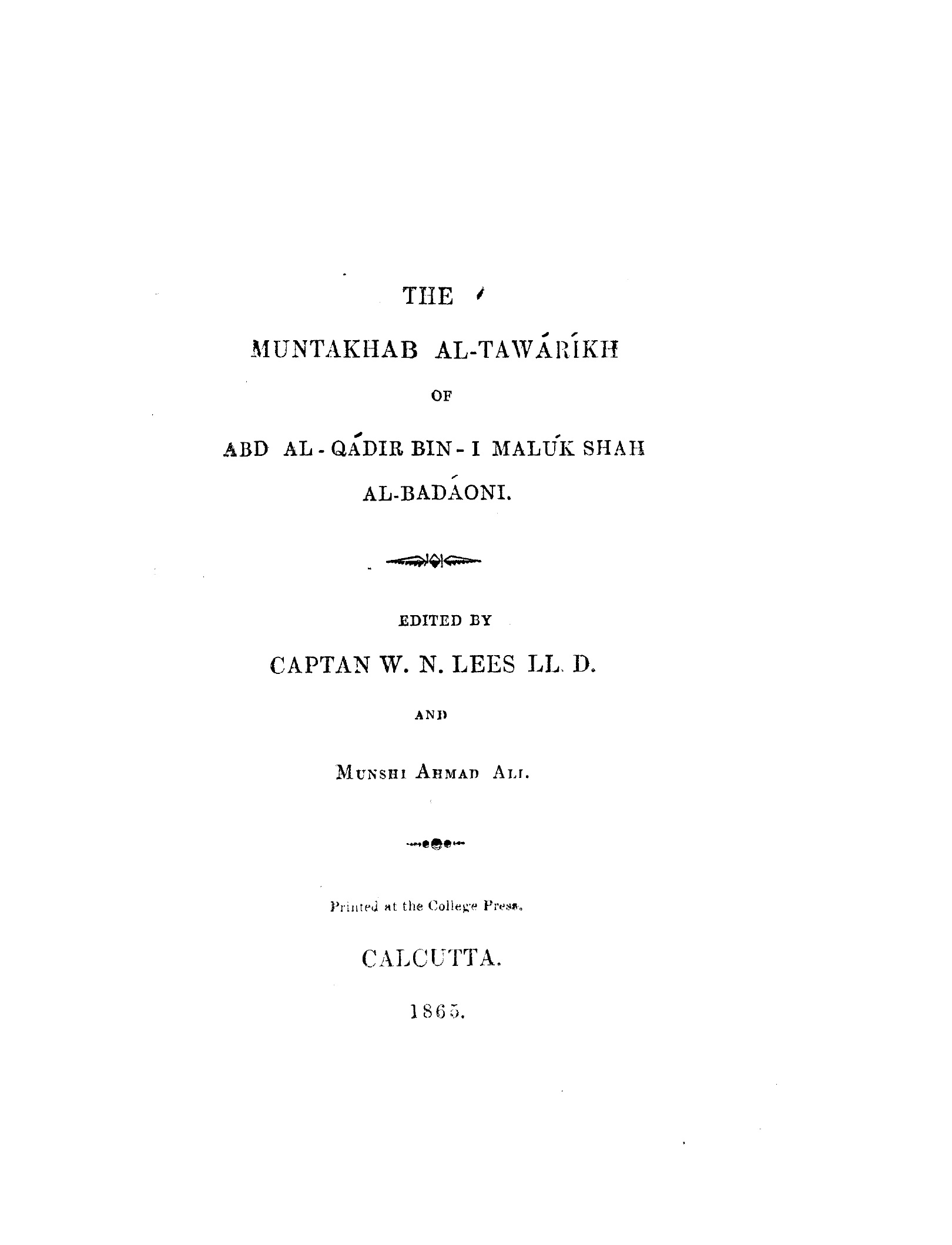 Muntakhab-ut-Tawareekh of `Abd al-Qadir Bada'uni- Calcutta, 1865